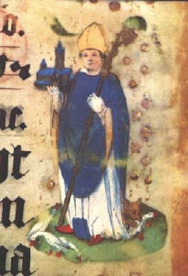 Illustration from an illuminated manuscript showing Saint Liudger (Ludger, Lüdiger)